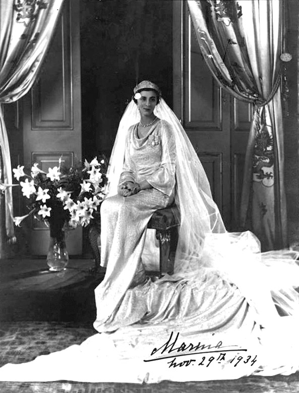 Princess Marina, photographed on her wedding day, November 1934